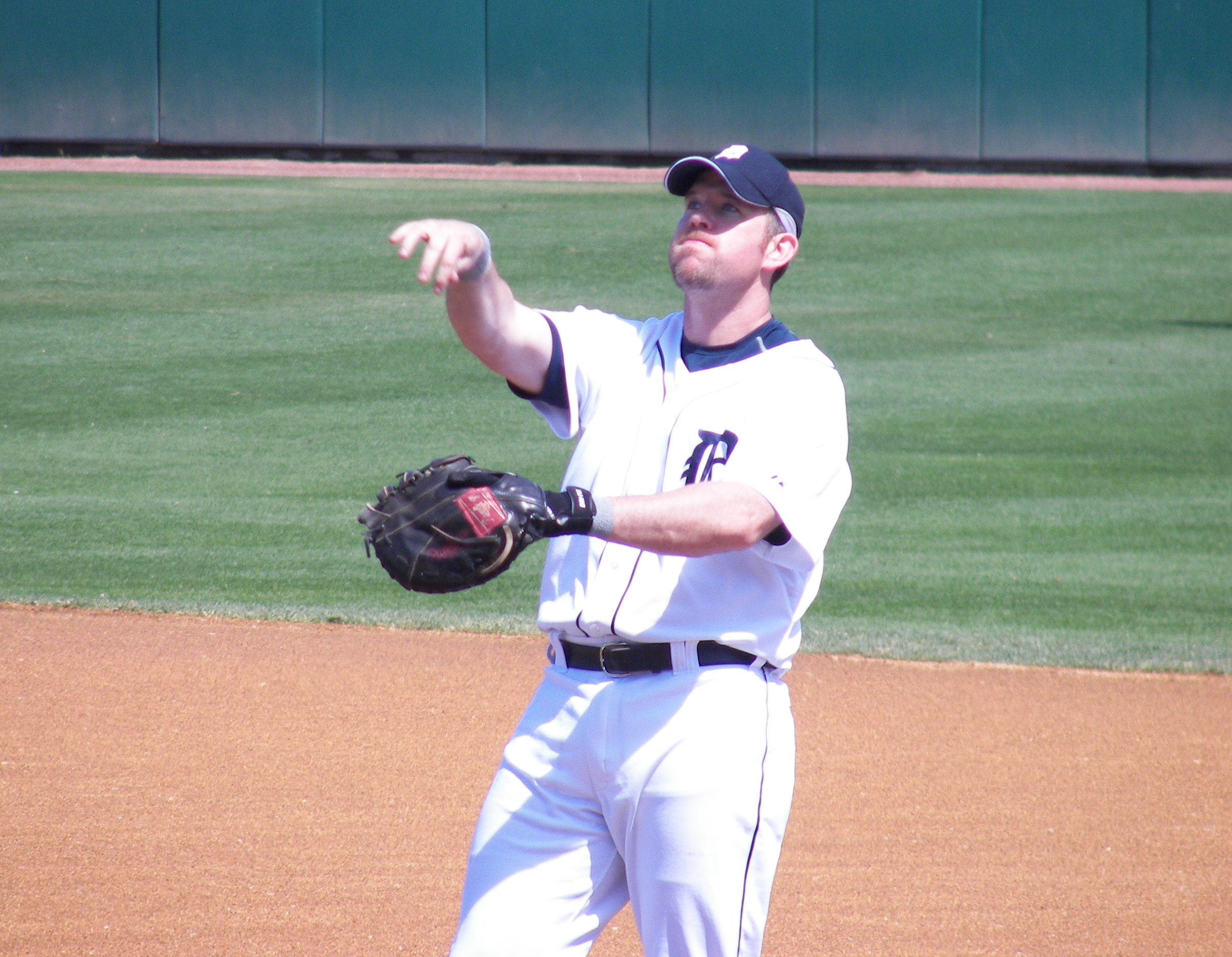 Detroit Tigers first baseman Sean Casey during a Tigers/New York Mets spring training game at Joker Marchant Stadium in Lakeland, Florida.